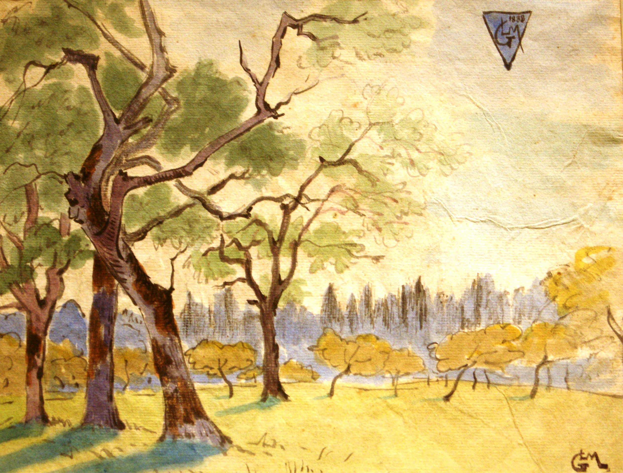 Léo Gausson (1860-1944) 1828 - Aquarelle Licensing This is a faithful photographic reproduction of a two-dimensional, public domain work of art. The work of art itself is in the public domain for the following reason: The author died in 1944, so this work is in the public domain in its country of origin and other countries and areas where the copyright term is the author's life plus 70 years or less. This work is in the public domain in the United States because it was published (or registered with the U.S. Copyright Office) before January 1, 1924. This file has been identified as being free of known restrictions under copyright law, including all related and neighboring rights. The official position taken by the Wikimedia Foundation is that "faithful reproductions of two-dimensional public domain works of art are public domain".This photographic reproduction is therefore also considered to be in the public domain in the United States. In other jurisdictions, re-use of this content may be restricted; see Reuse of PD-Art photographs for details.